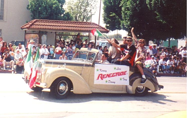 Rock band Renegade riding in classic car at East L.A. Parade